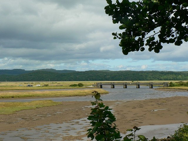 Add Estuary from the Bird Hide. The view from 922481 looking towards Islandadd Bridge